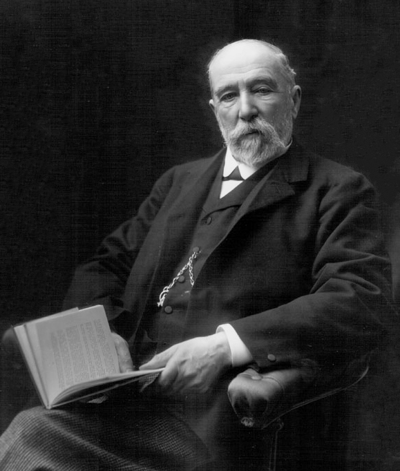 Augustus Cholmondeley Gough-Calthorpe, 6th Baron Calthorpe (1829-1910), photographed 17 December 1906